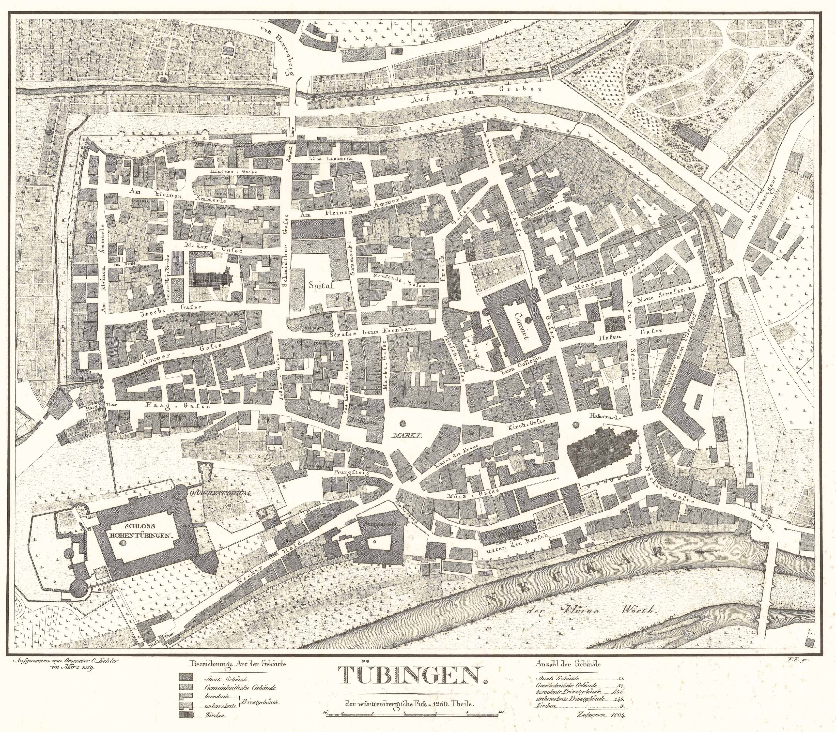 Cadastral plan of Tübingen, published 1819